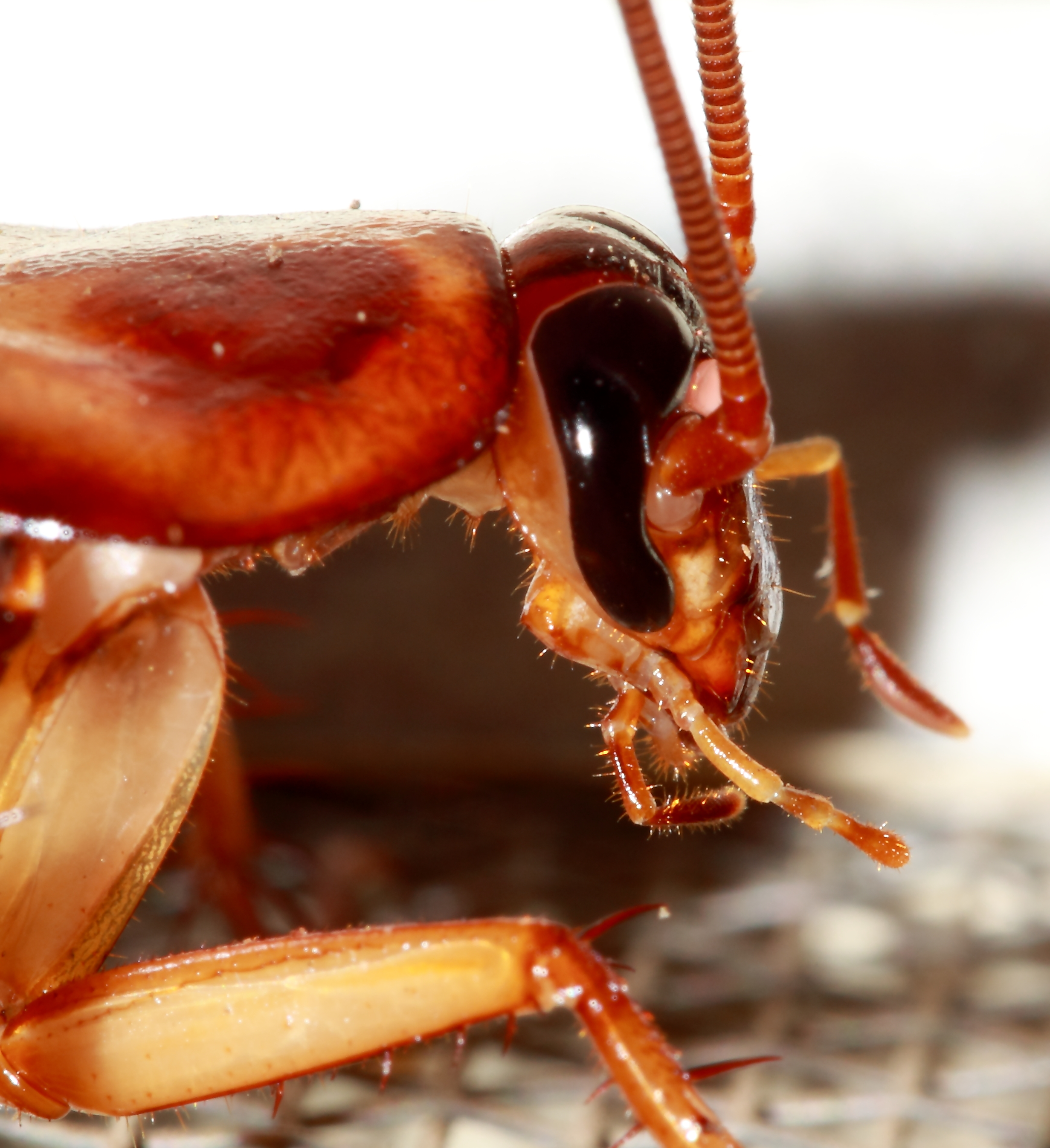 Order: Blattaria Family: Blattidae Genus: Periplaneta Species: P. americana